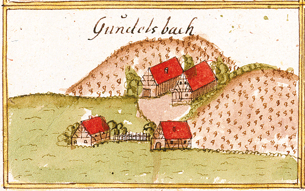 View of Gundelsbach, Großheppach, Weinstadt, from the forest register books created by Andreas Kieser